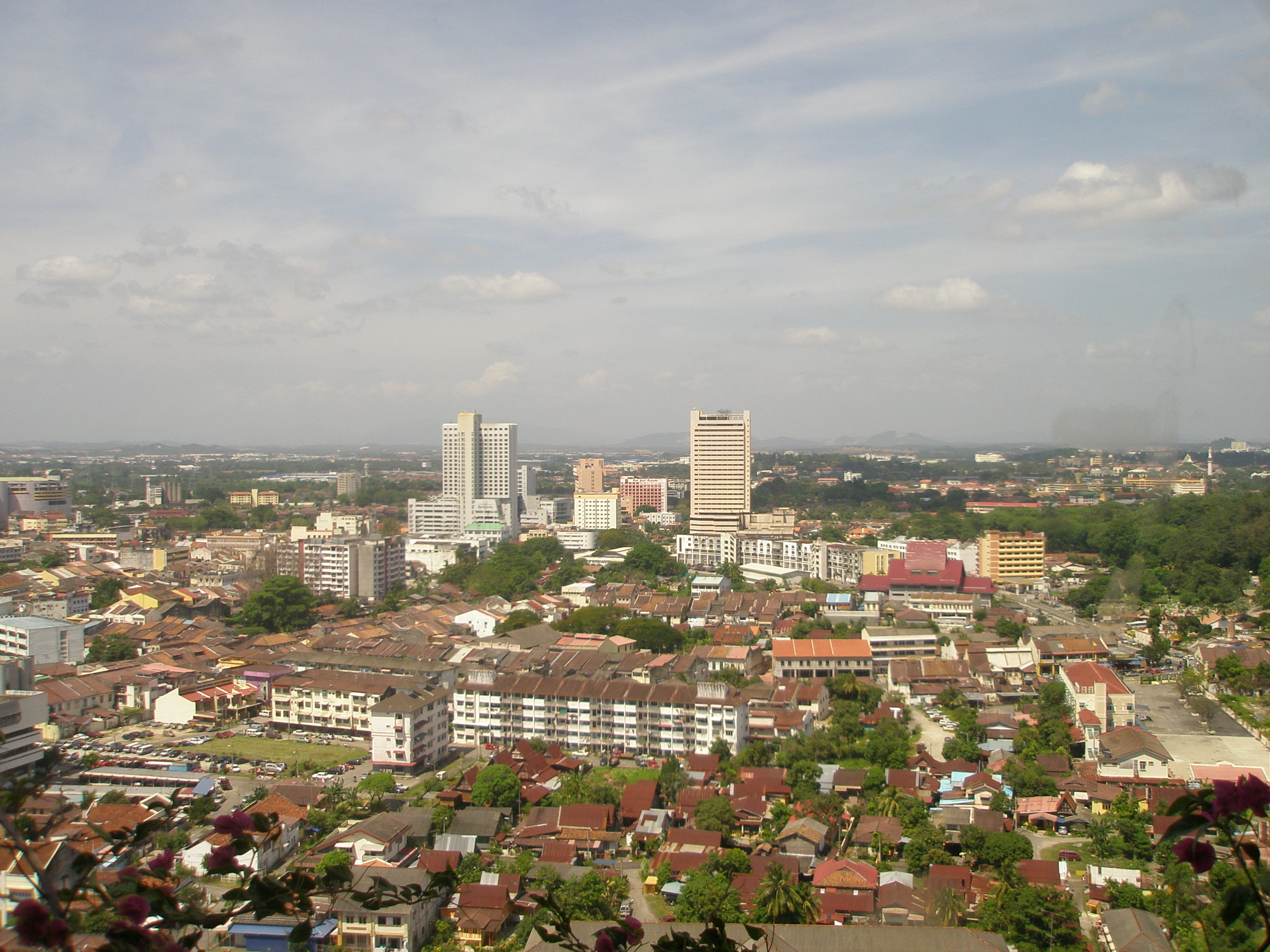 View of Malacca City in Malaysia.